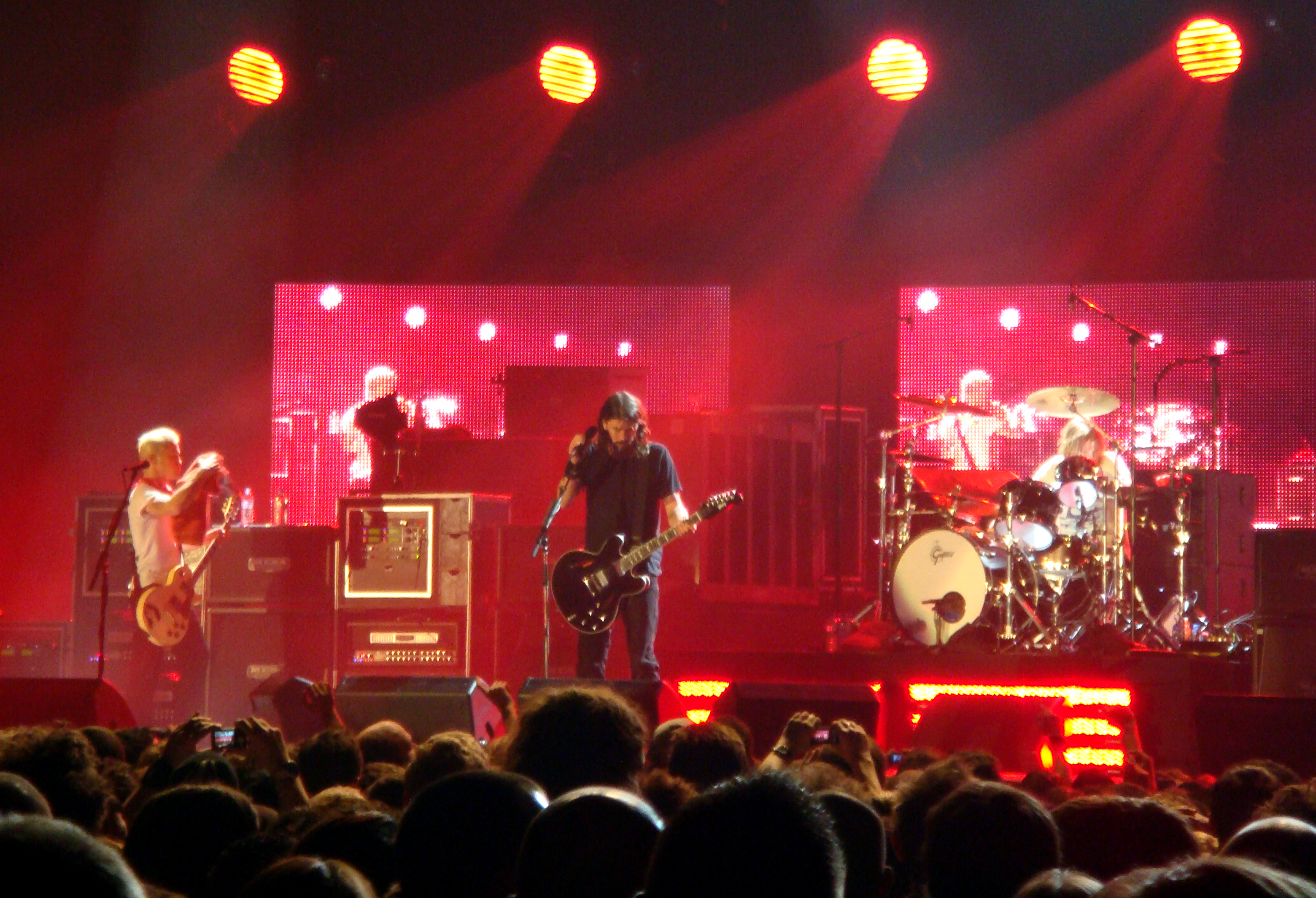 Foo Fighters